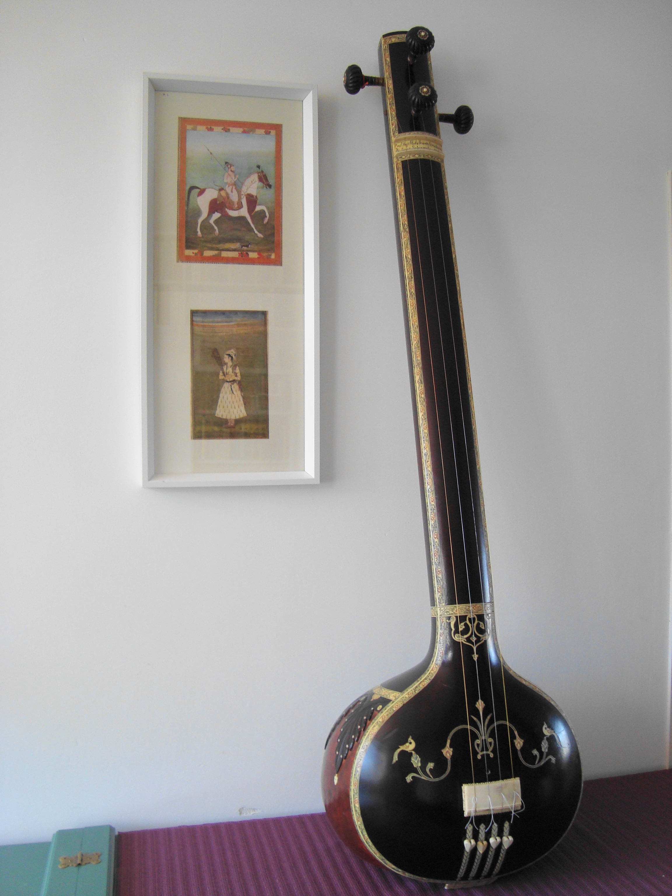 Prof Haji Abdulkarim Ismailsaheb & Sons Satarmakers MIRAJ